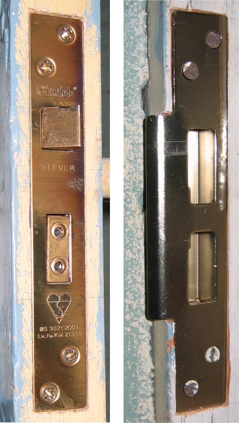 Composite photo of two parts of a mortise lock